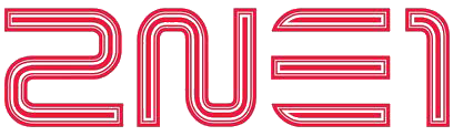 2NE1 Logo